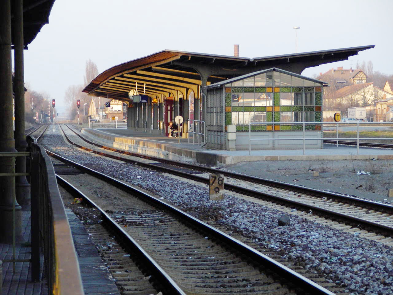 Platform 2 and 3 of Quedlinburg train station